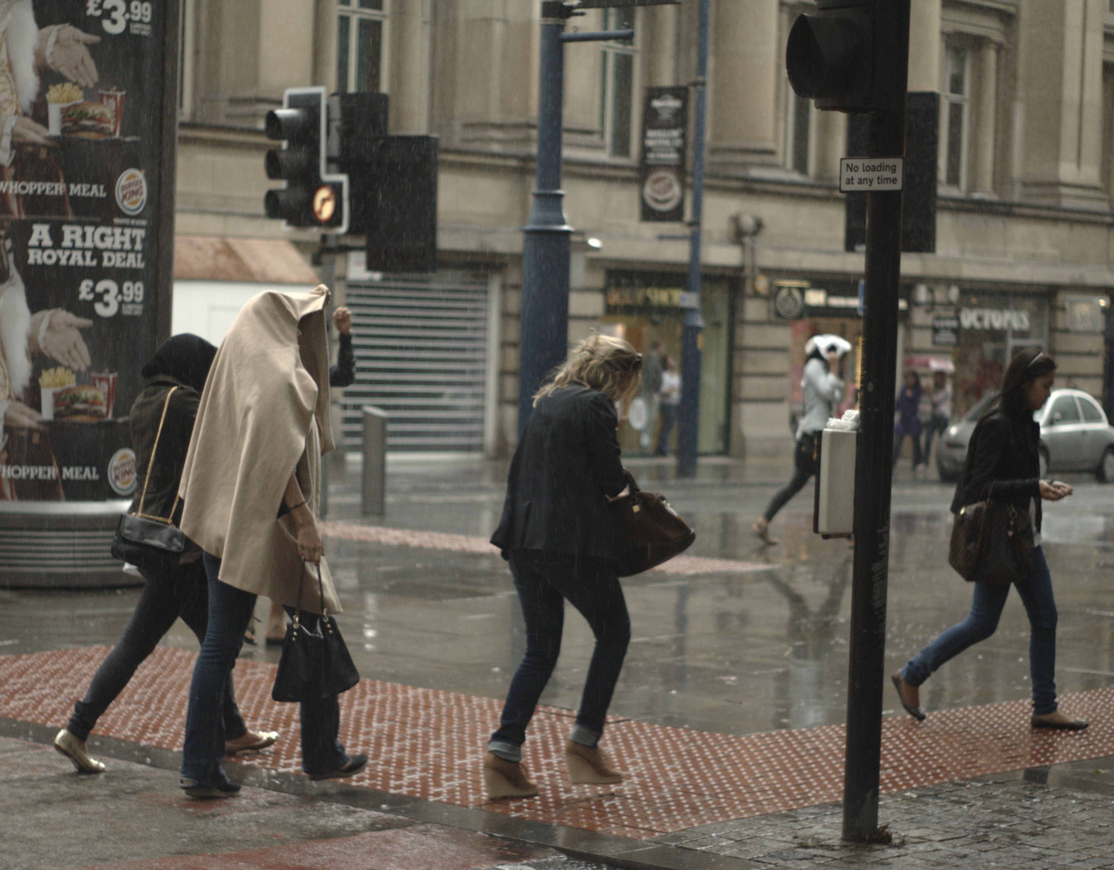 Shoppers unprepared for the expected rain. You'd think they didn't realise they were in Manchester.